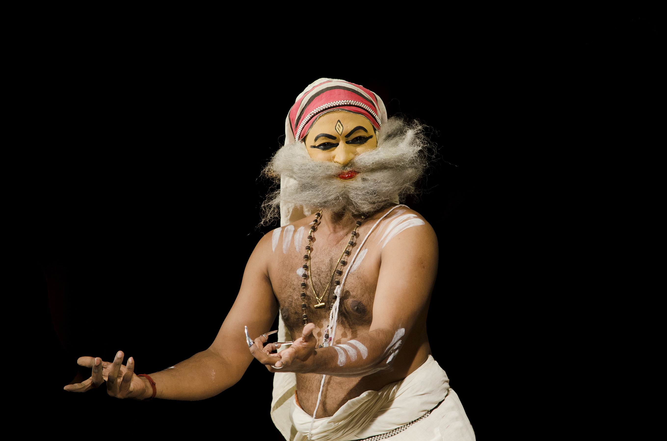 Sanyasi Character